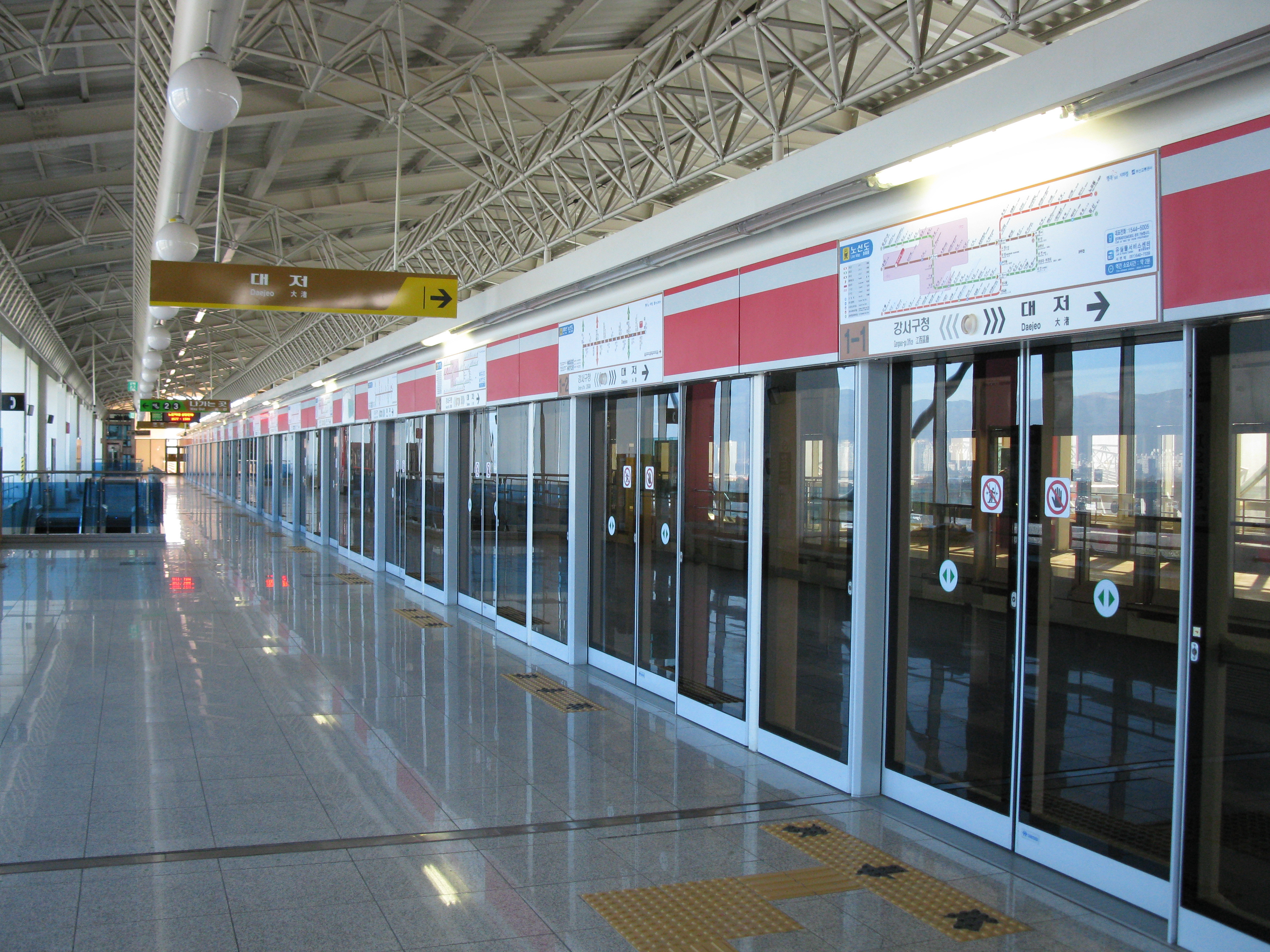 A platform of Sports Park Station, Busan Subway Line 3